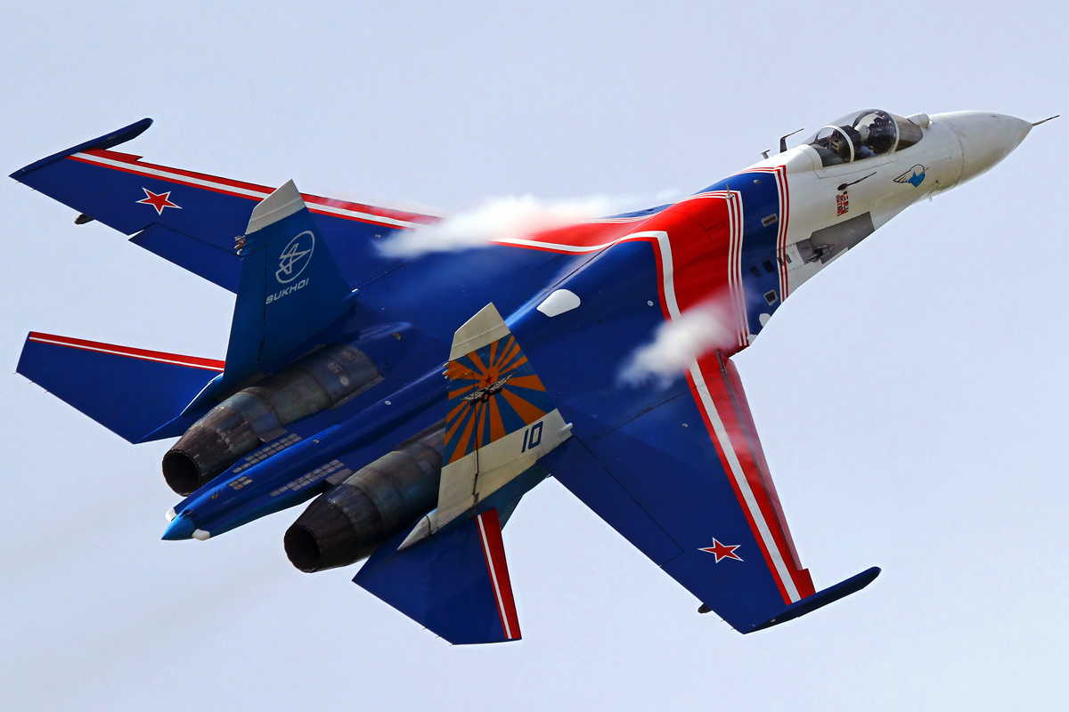 Sukhoi Su-27P fighter of Russian Knights aerobatics team